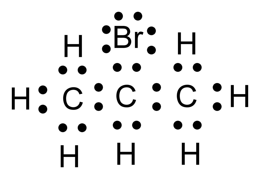 Lewis structure of the 2-bromopropane (isopropyl bromide) molecule, C3H7Br